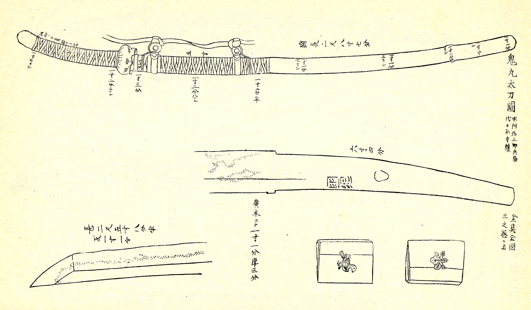 Oni-Mar(鬼丸) was a famous japanese sword.This picture was in Japanese book "集古十種(Shūko Jyusshu)".